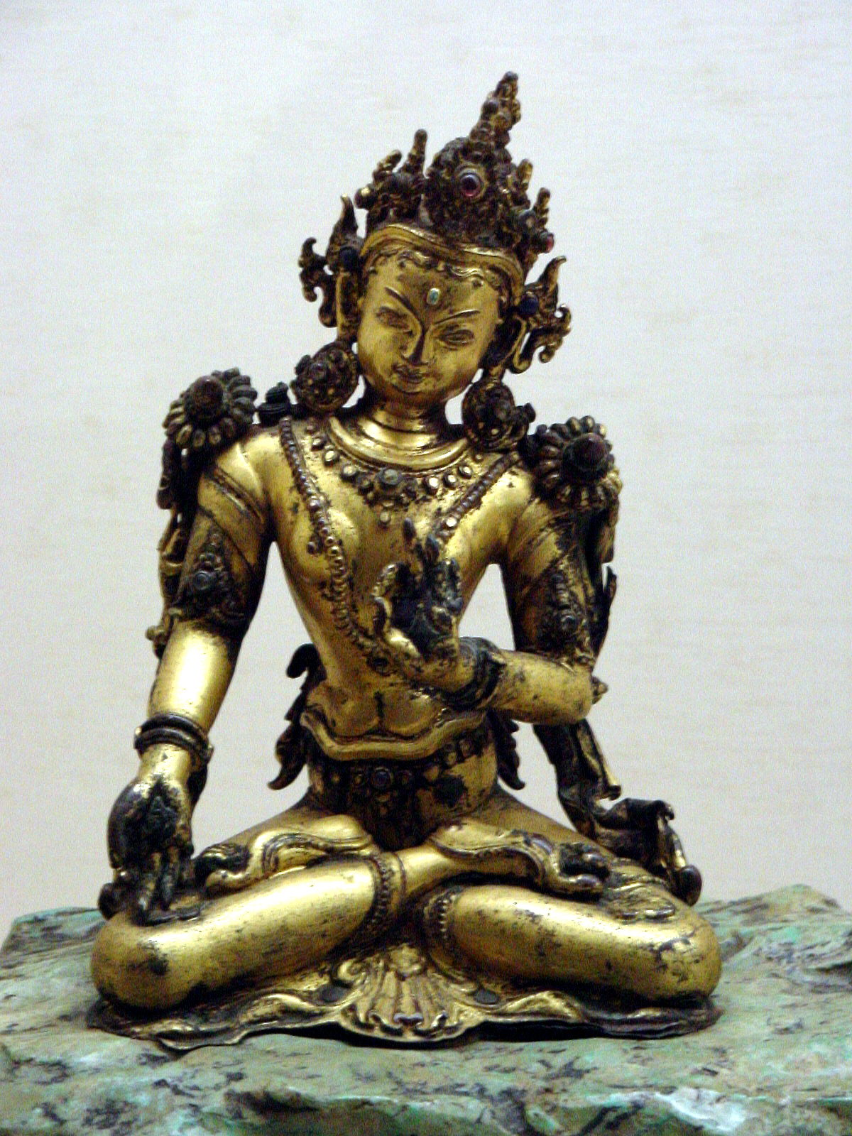 White Tara. Nepal, 17th century Prince of Wales Museum, Bombay Tara, the Nepalese Buddhist goddess of compassion, exists in two forms, a peaceful "White Tara" and a fierce "Green Tara." She was born from the tears shed by Avalokiteshvara, the Bodhisattva of Compassion, for the sufferings of mankind. Her right hand is extended in the gesture of giving (varada mudra); her left makes the sign of teaching (vitarka mudra). Tara has seven eyes: the two usual ones, a third eye in the middle of her forehead, and one eye each in the palms of her hands and the soles of her feet.